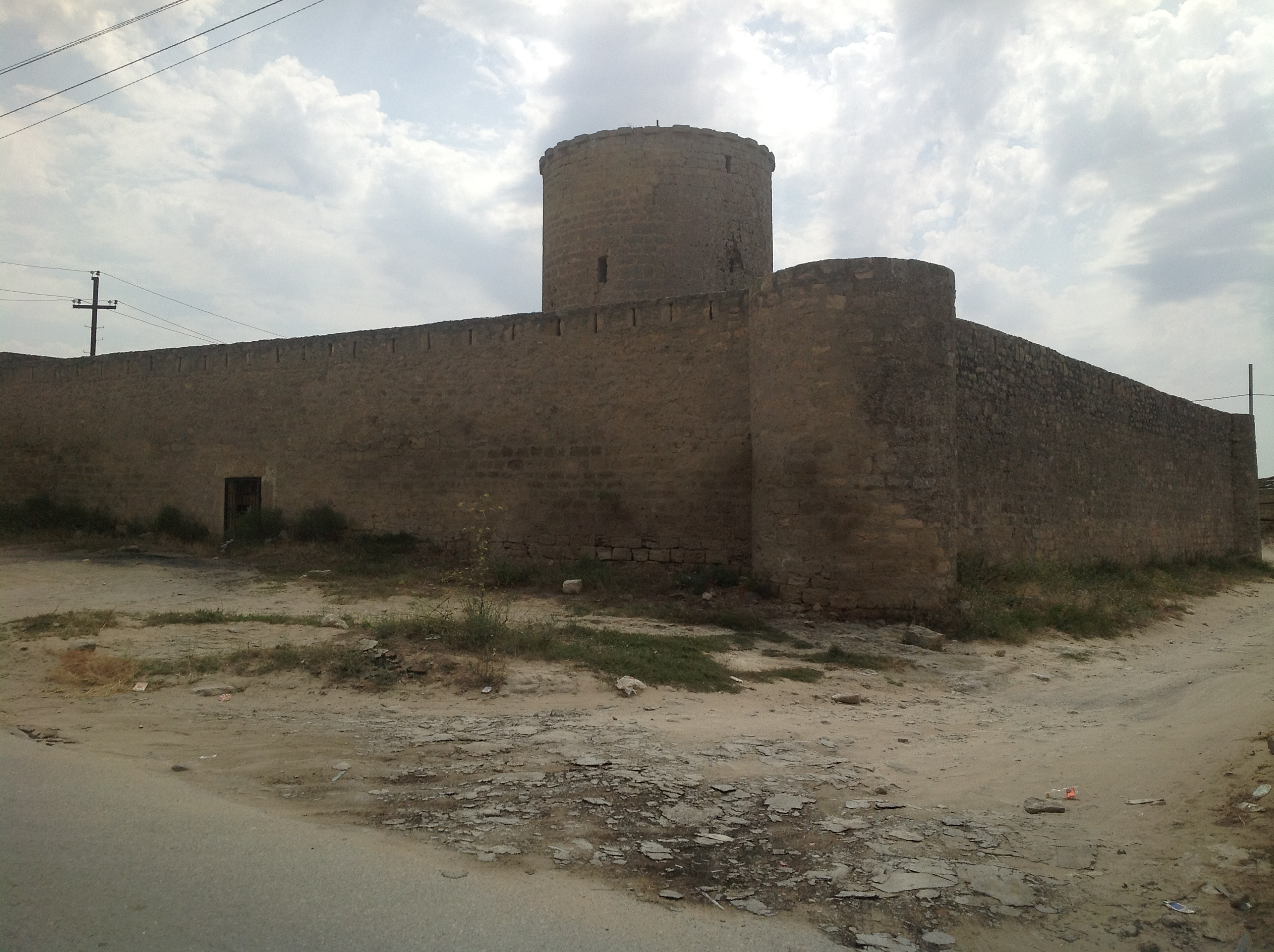 Nardaran Fortress in the Nardaran (Baku, Azerbaijan)